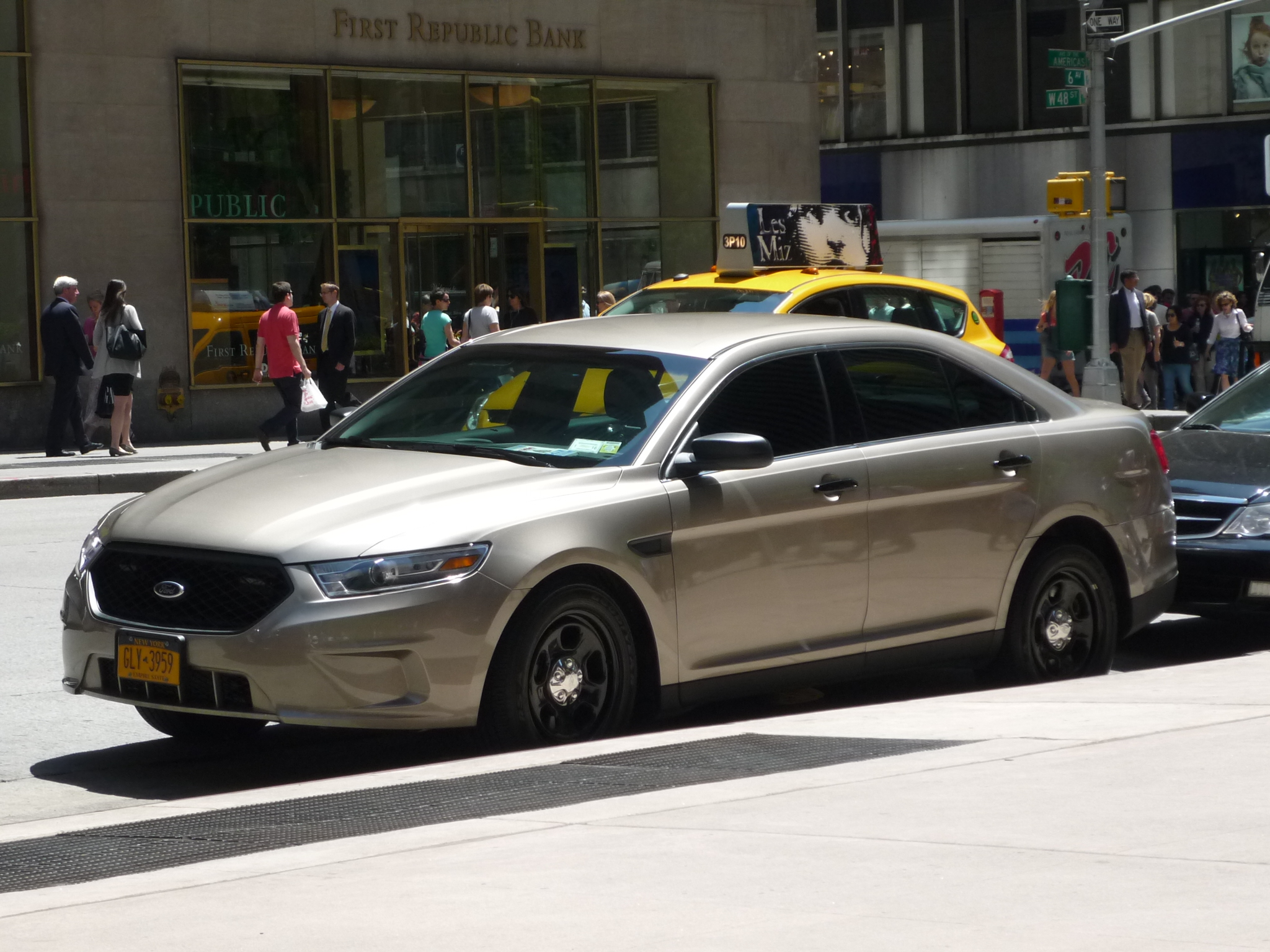 An unmarked Taurus PI parked on 6th Avenue. I assume it belongs to the NYPD, though I can't be sure.